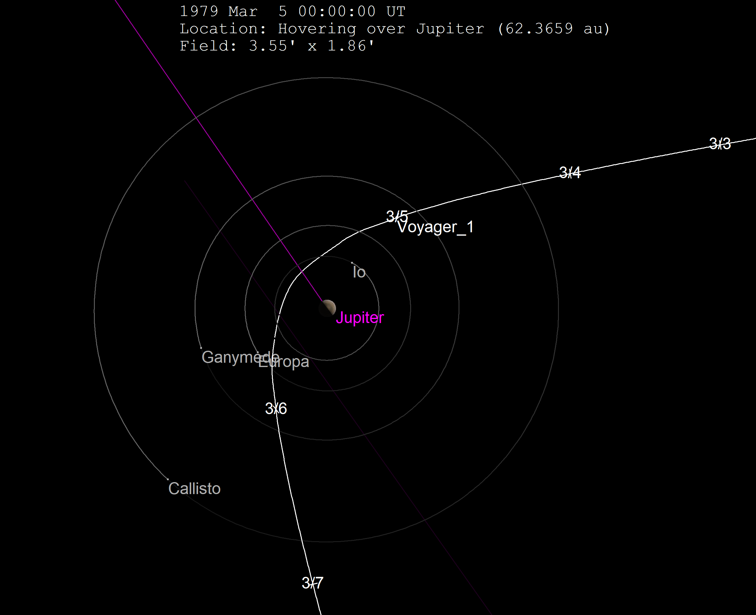 Voyager 1 flyby Jupiter, March 5, 1979, with daily motion